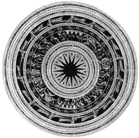 Hoang Ha bronze drum's surface